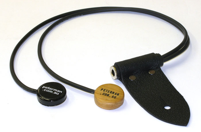 Peterman Dual external guitar pickup